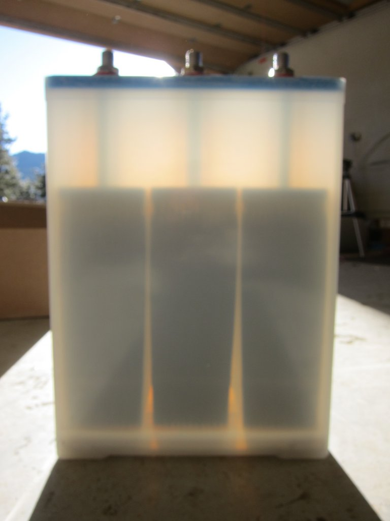 The active material of the battery plates is contained in a number of filled tubes or pockets, securely mounted in a supporting and conducting frame or grid. The support is in good electrical contact with the tubes. The grid is a light skeleton frame, stamped from thin sheet steel, with extra reinforcing width at the top. The grids – as also all metallic parts of the cells – are nickel plated to prevent corrosion. The elements must remain covered with electrolyte; if they dry out, the negative plates will oxidize and will require a very long charge